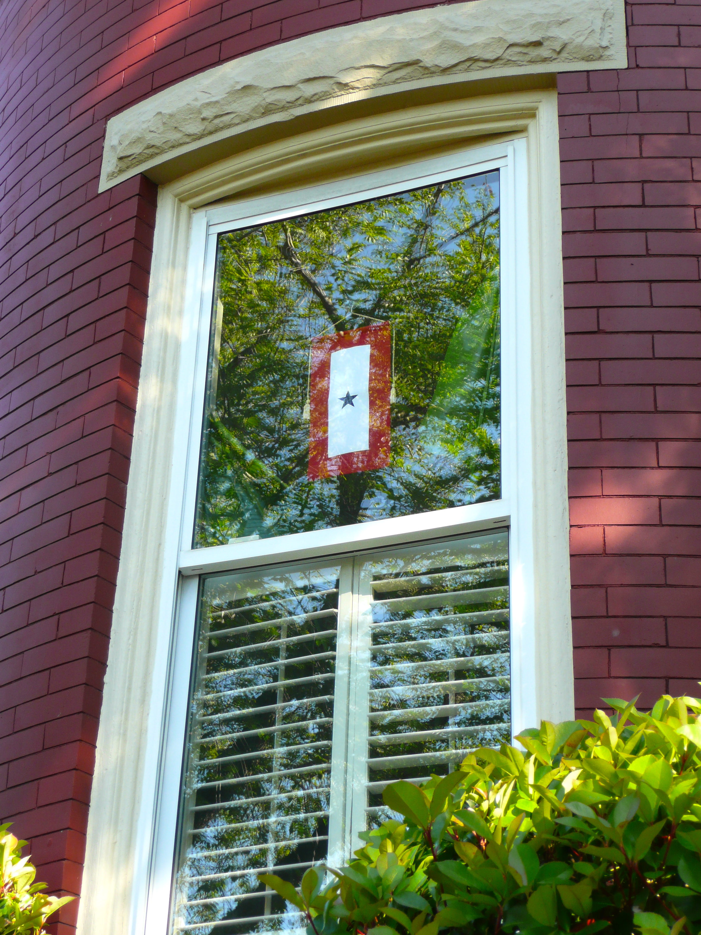 Blue Star flag in the window, Capitol Hill, Washington DC, Mat 25, 2012.